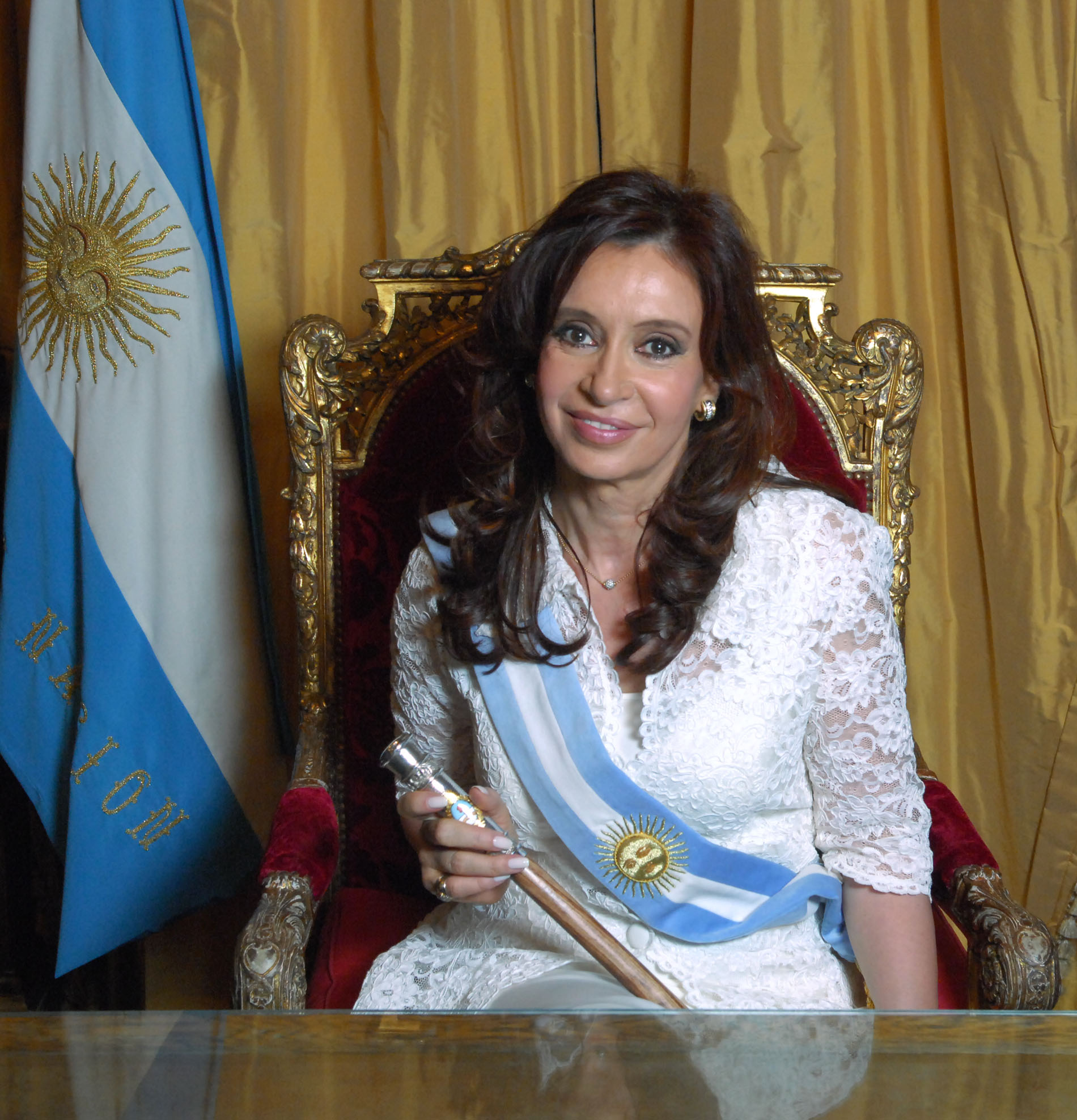 Cristina Fernández de Kirchner, President of Argentina